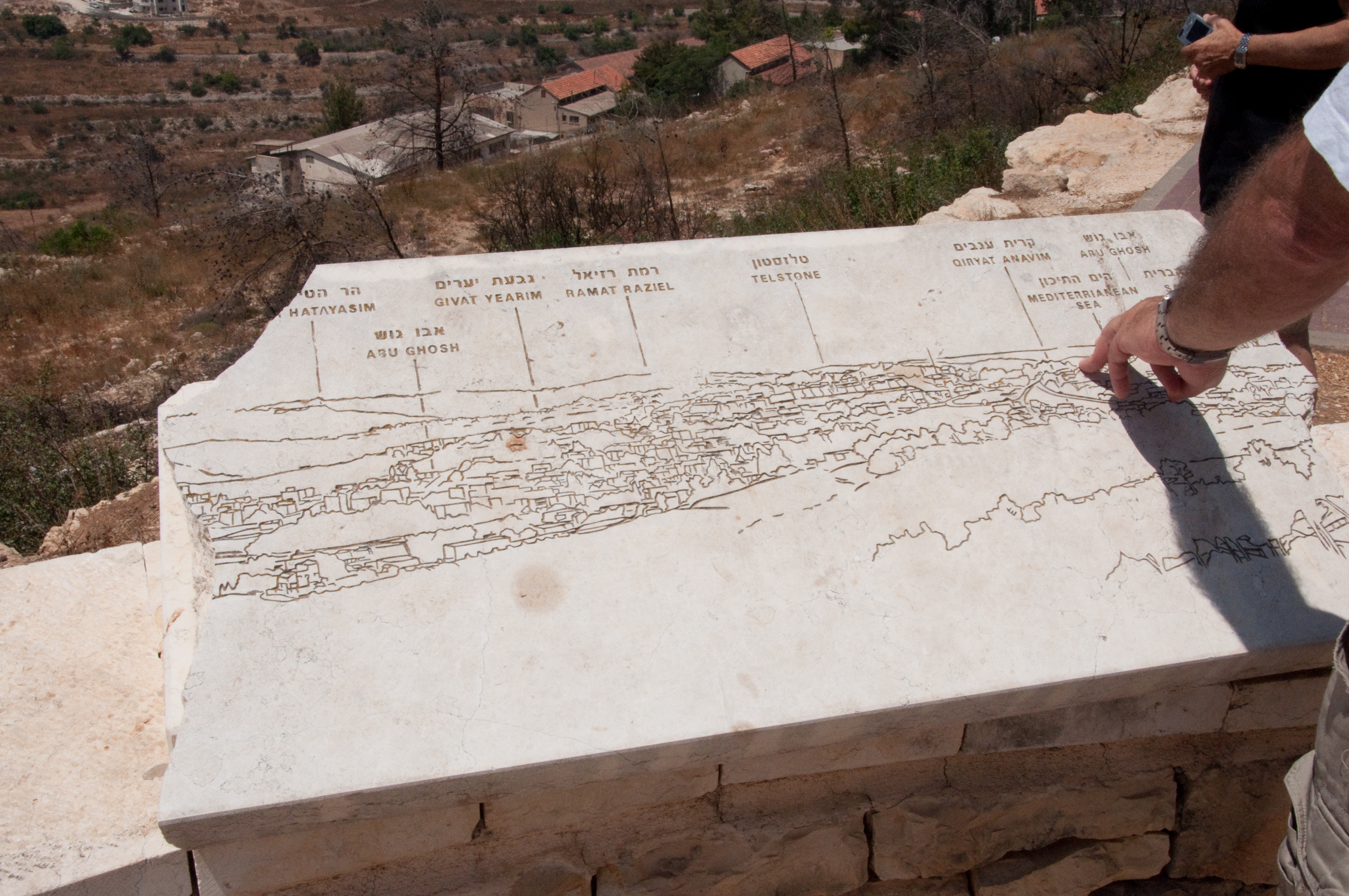 A diagram of the View Har Adar